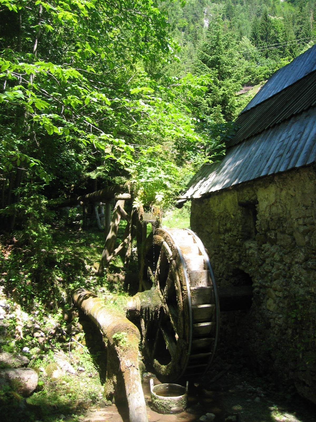 Burjak Mill in landscape park of valley Topla, Slovenia photo:Ziga 13:00, 13 August 2006 (UTC)